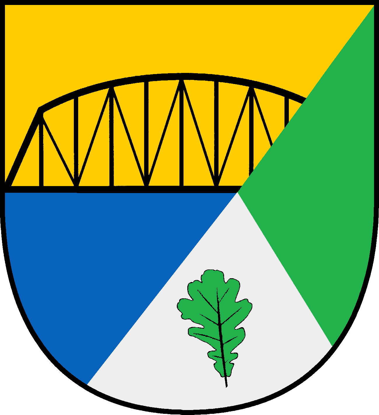 Coat of arms of the municipality Wittenbergen in Schleswig-Holstein, Germany.